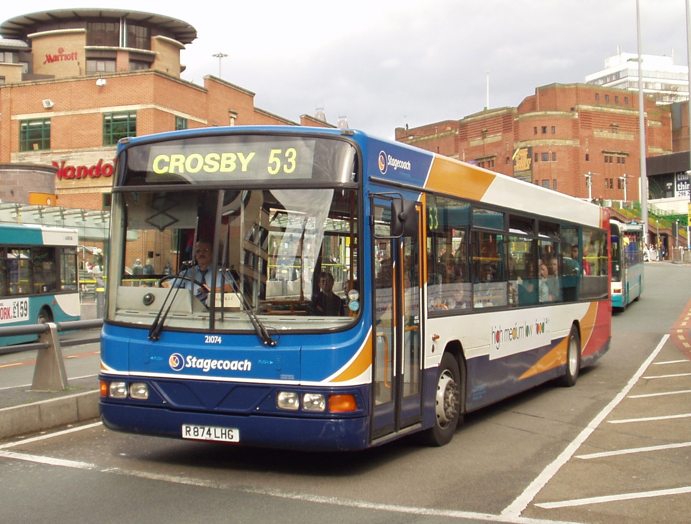 Stagecoach Merseyside Volvo B10L with Wright Liberator bodywork, 21074 (R874 LHG) in Queen Square Bus Station, Liverpool.